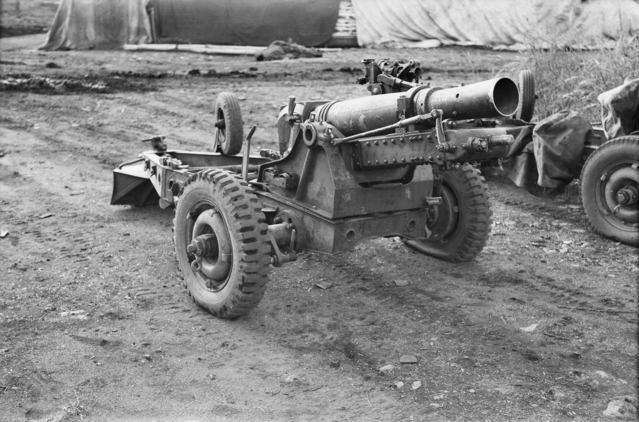 Australian War Memorial image 072881. A Ordnance QF 25-pounder Short gun at Lae, New Guinea in 1944